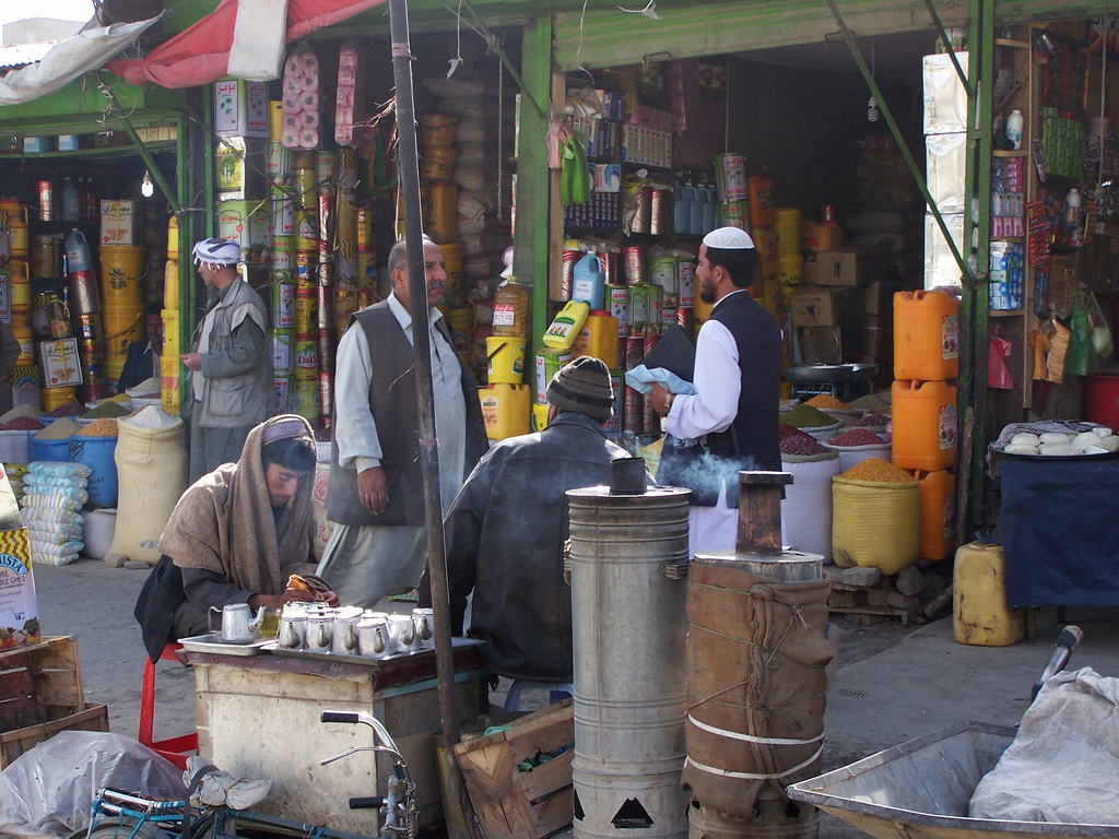 An old bazaar scene in Kabul City, Afghanistan.